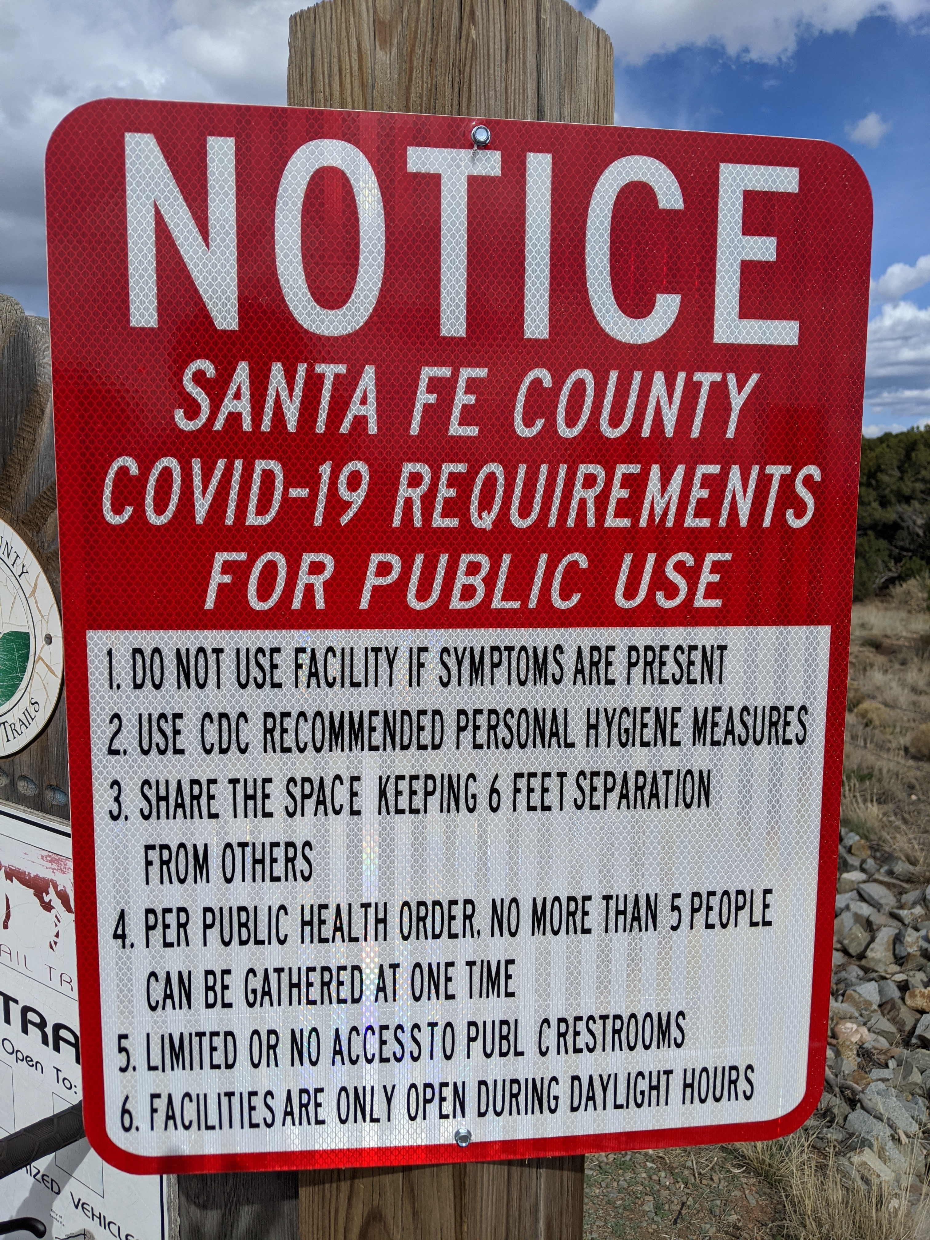 A sign in santa fe county, nm regarding COVID-19